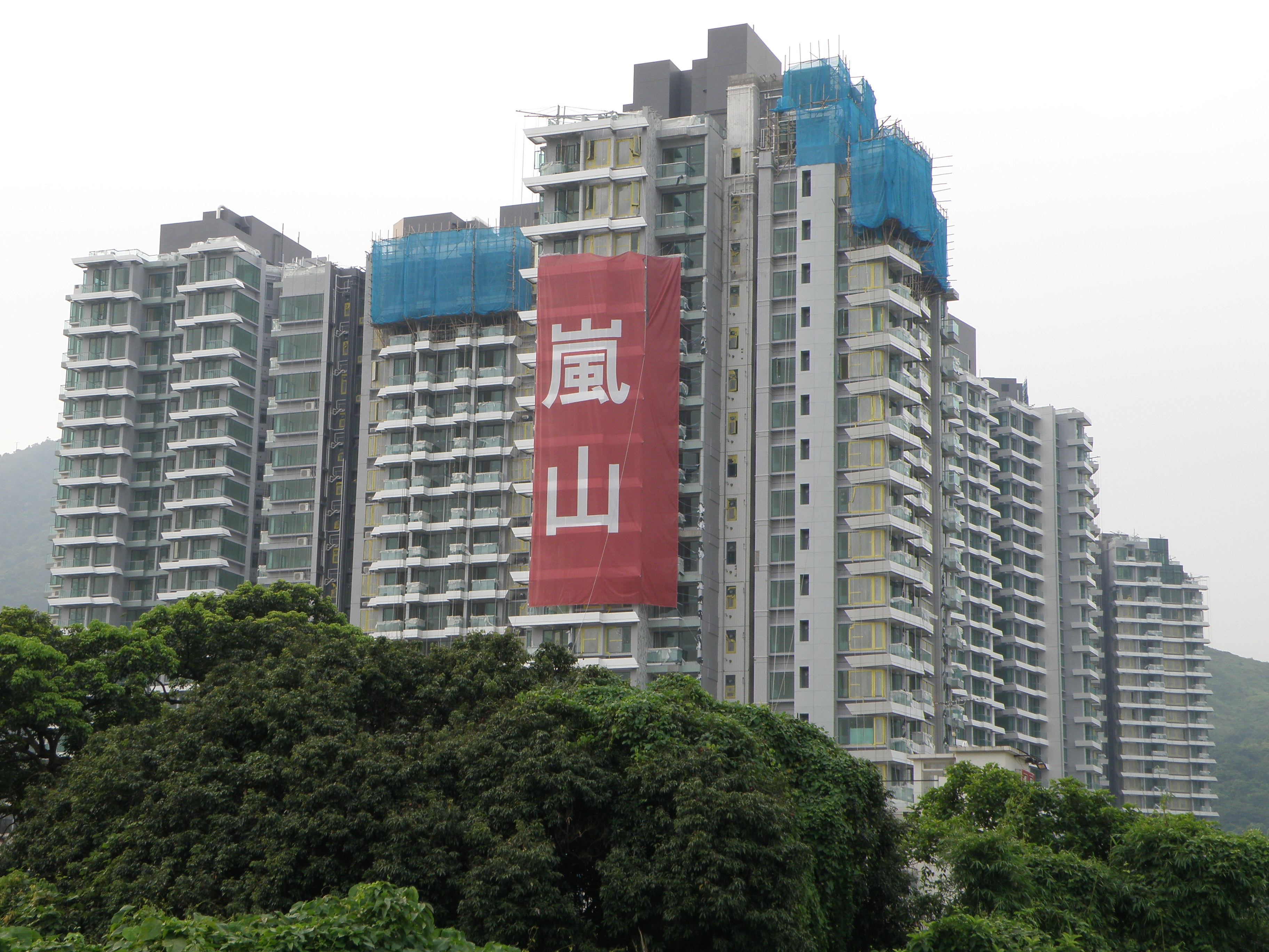 Mont Vert, a residence in Tai Po, Hong Kong.